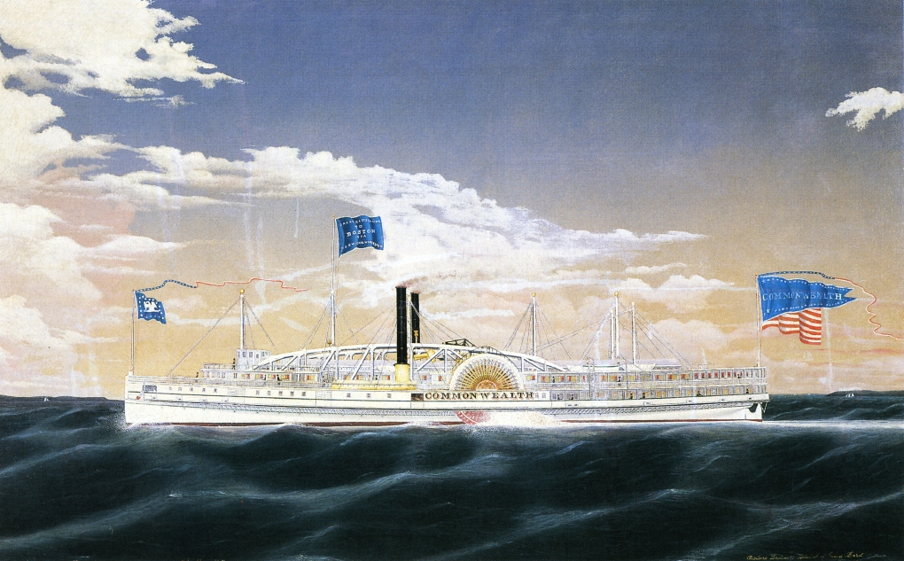 Commonwealth, Long Island Sound steamboat, oil on canvas by James Bard.